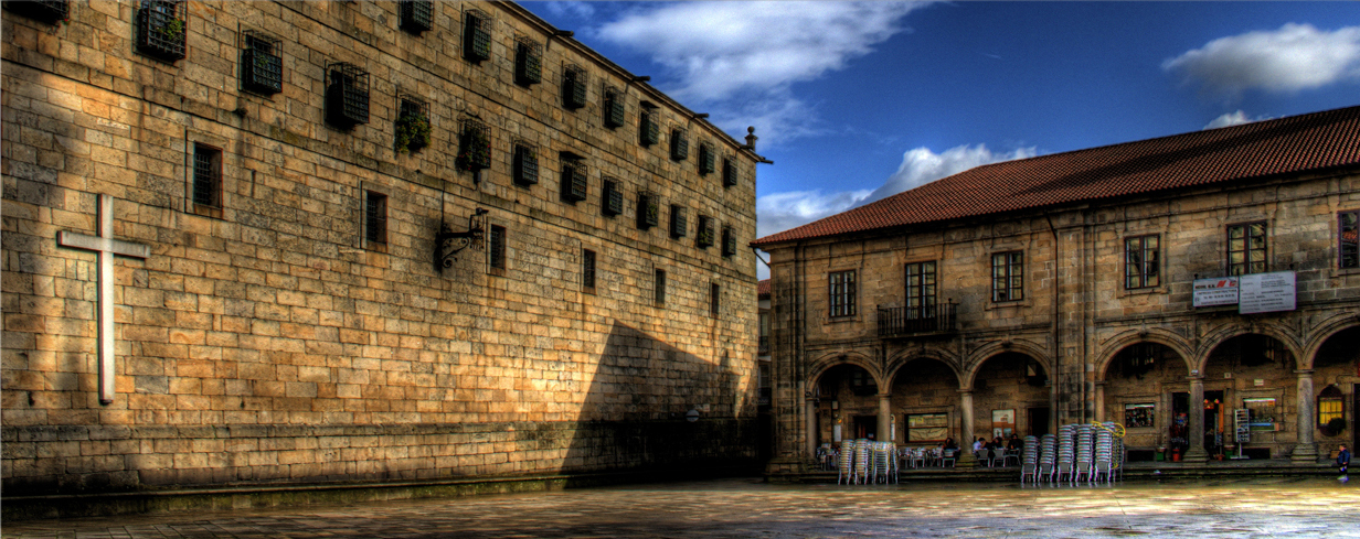 Quintana de mortos.